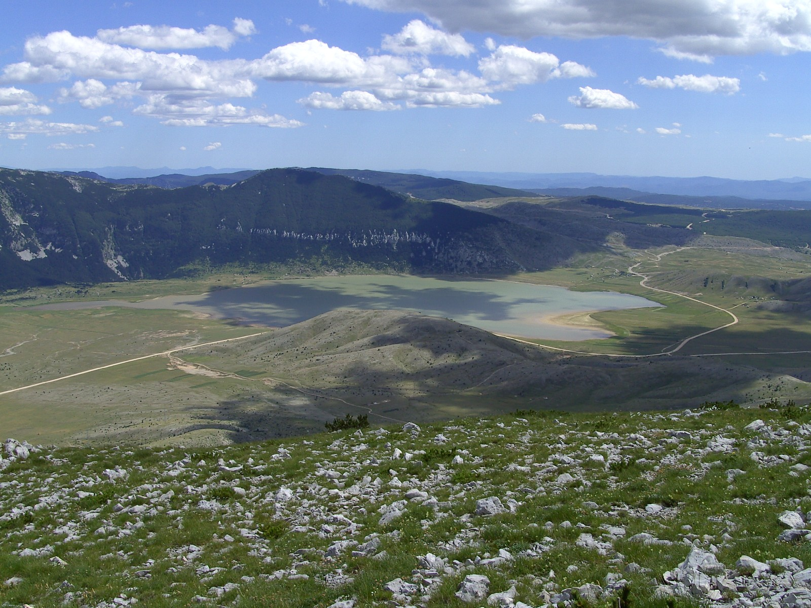 Blidinjsko Lake, Bosnia and Herzegovina